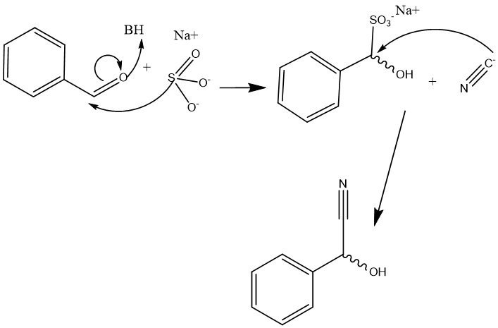 The typical synthetic organic chemistry method for the production of mandelonitrile, through a sulfate intermediate reaction followed by a reaction with a cyanide nucleophile.